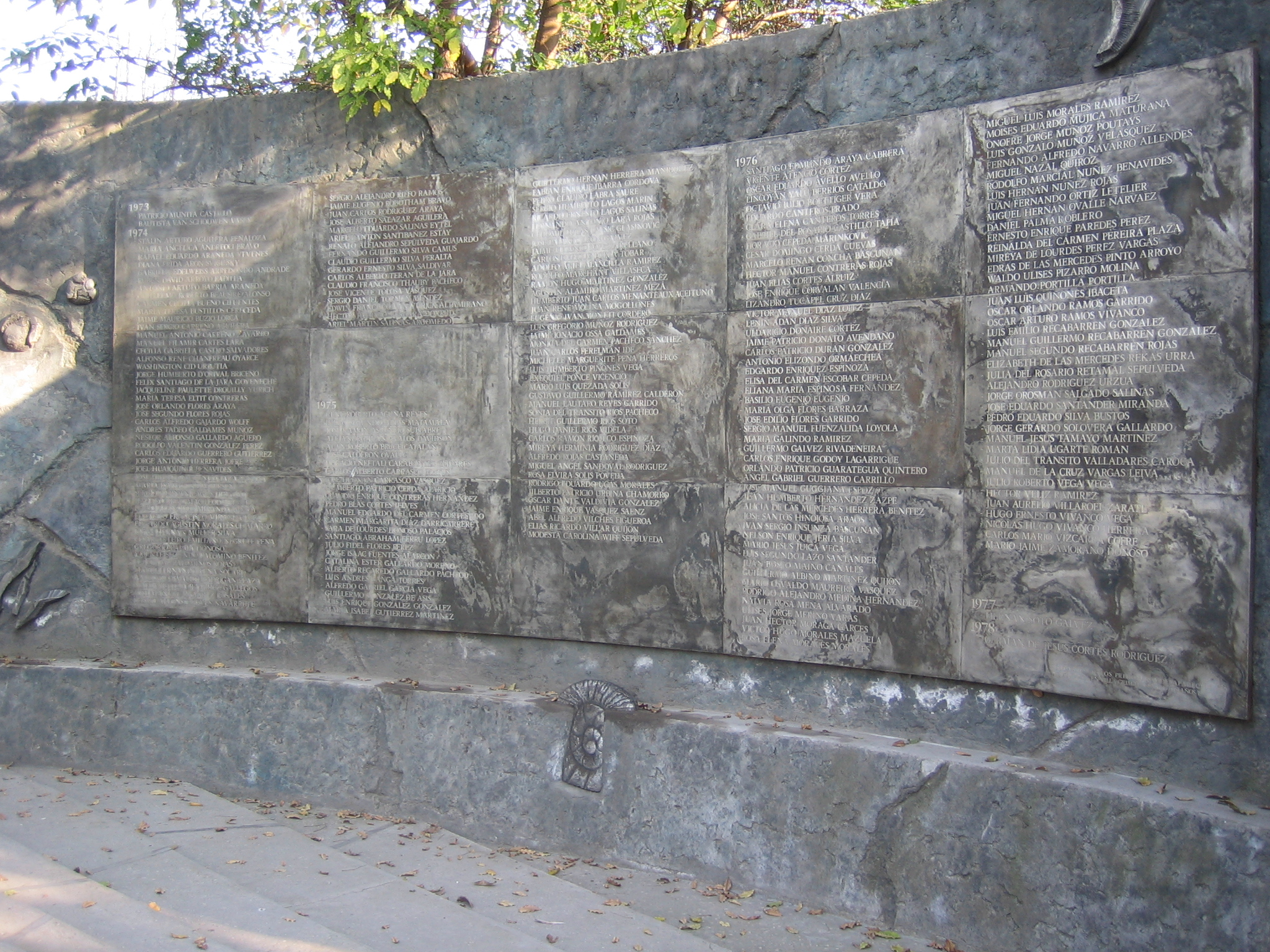 Inscribed wall of victims names. Parque de la Paz—Villa Grimaldi in Santiago de Chile, Chile.